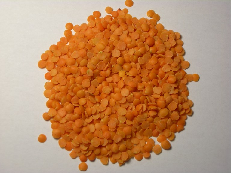 Masoor dal, also known as red split lentils.